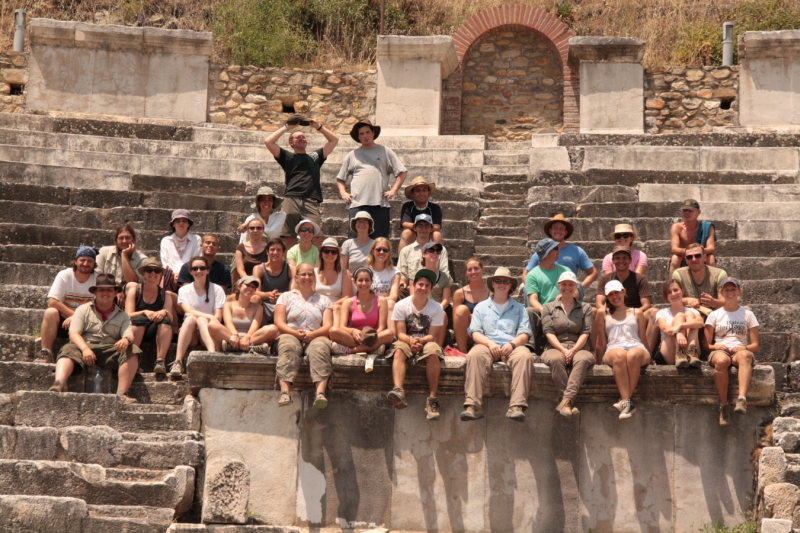 Balkan Heritage Field School at Heraclea Lyncestis, Bitola, Republic of Macedonia, 2012